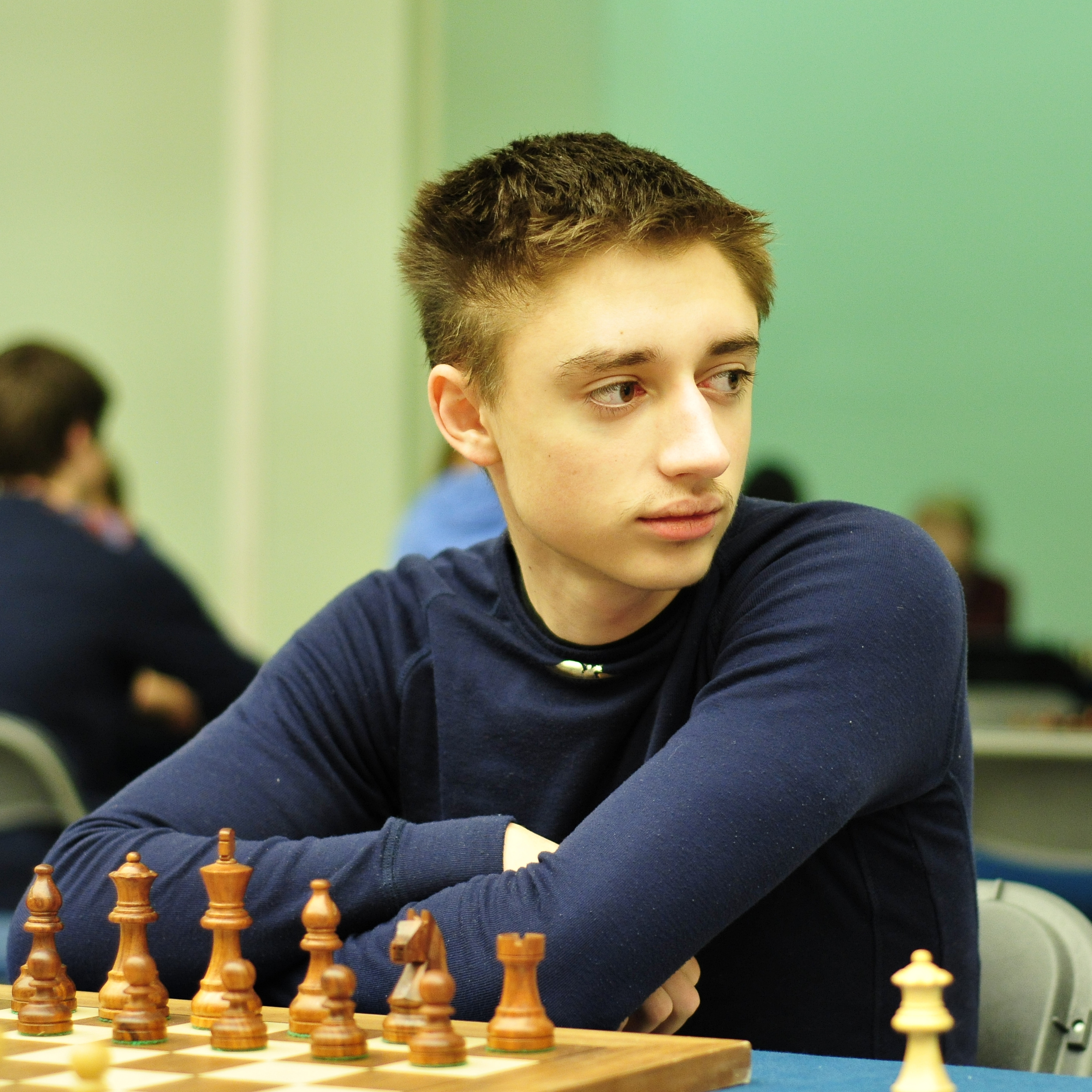 GM Daniil Dubov, European Rapid Chess Championship, Warsaw 2013.